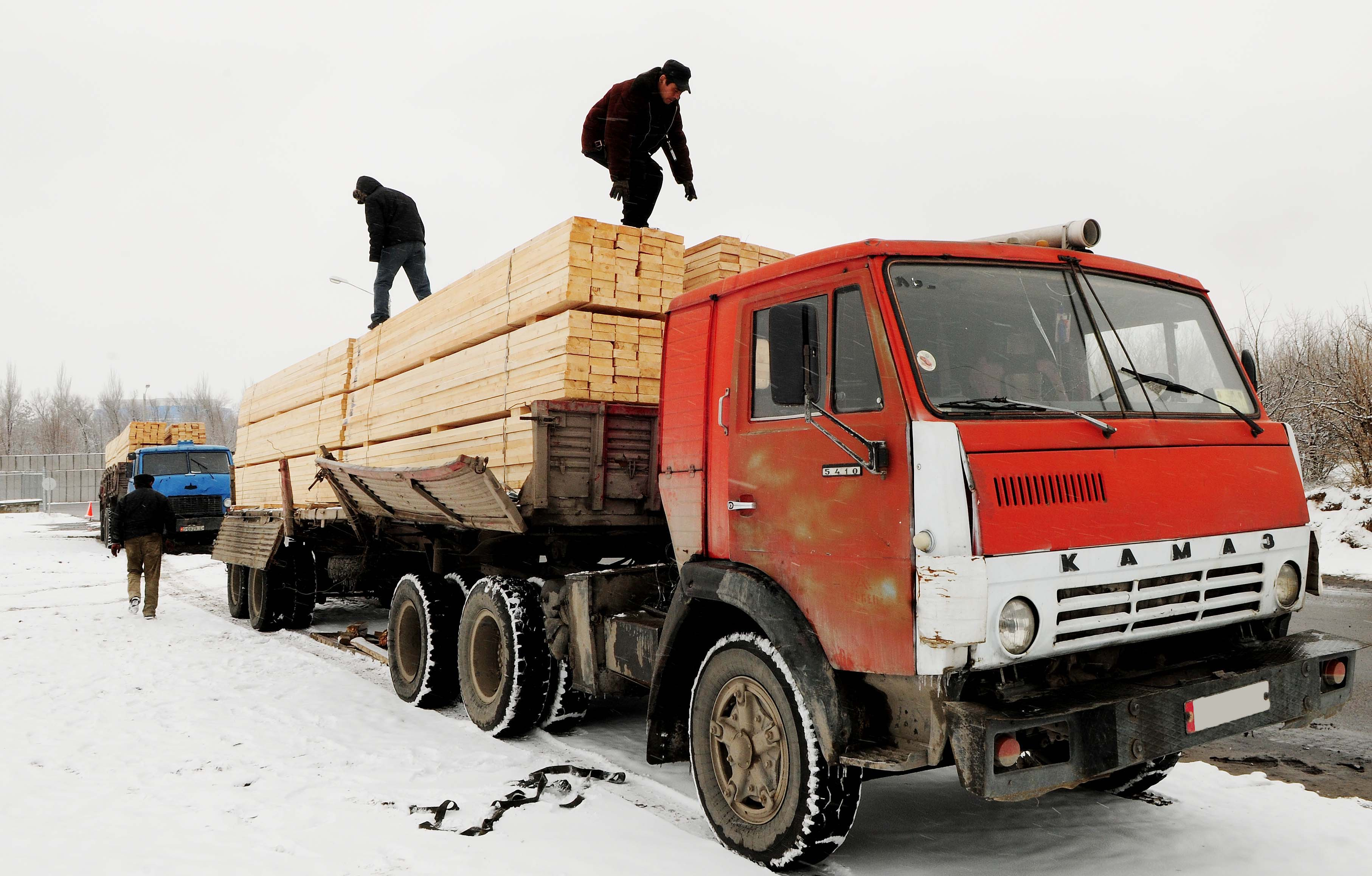 A Kyrgyz Kamaz-5410 truck is transporting lumber to the Transit Center at Manas.